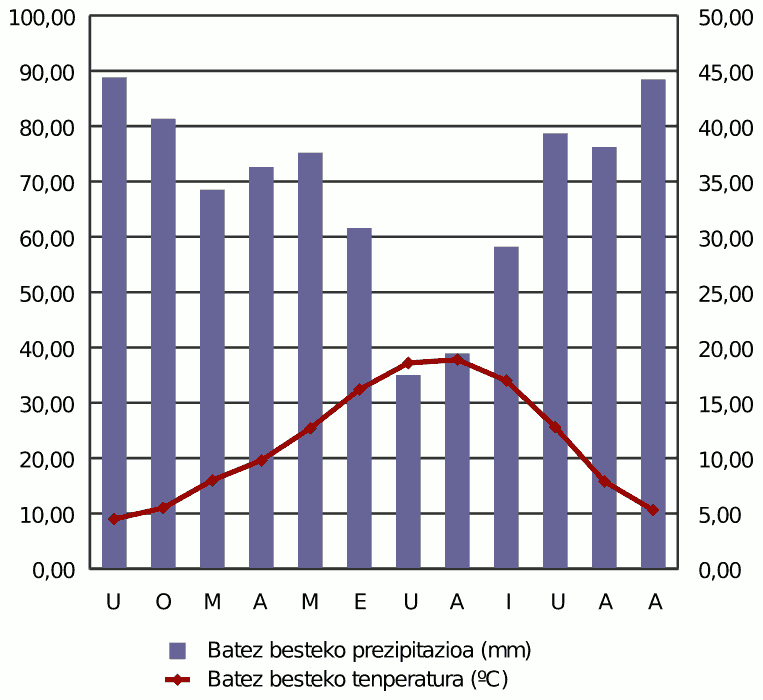 Gasteizko diagrama onbrotermikoa (1930-1990 urteen batez bestekoa) / Climate diagram of Vitoria-Gasteiz (Basque Country, Spain)